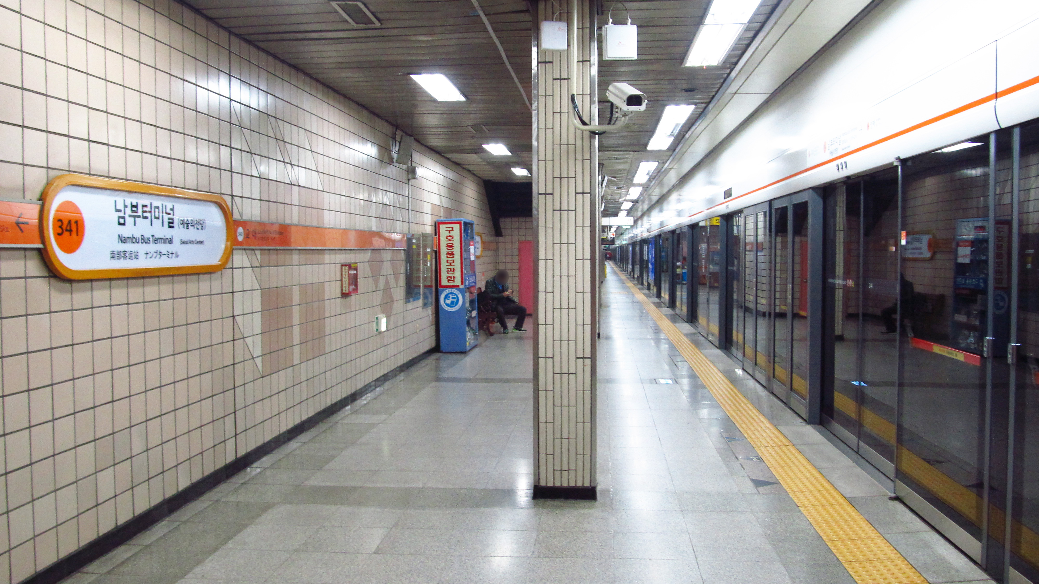 The platform at Nambu Bus Terminal Station on Seoul Subway Line 3 in Seocho-gu, Seoul, Republic of Korea(South Korea)